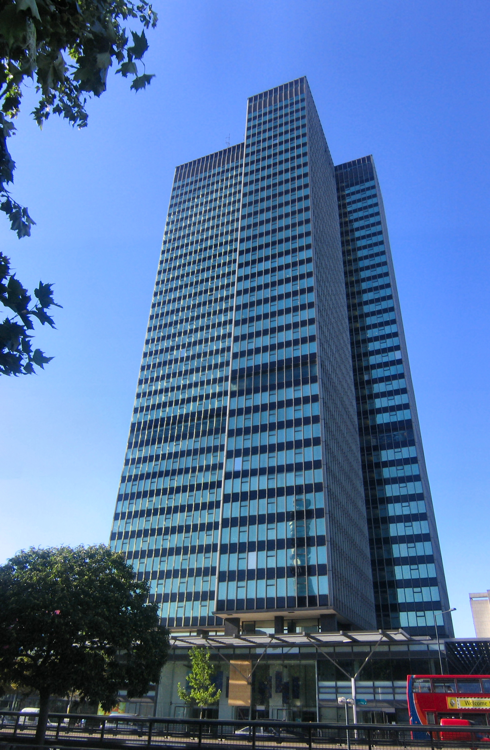 Euston Tower in London. The reflection of the BT Tower can be seen at the base of the tower.. Image stitched from 4 photos with wide angle correction.